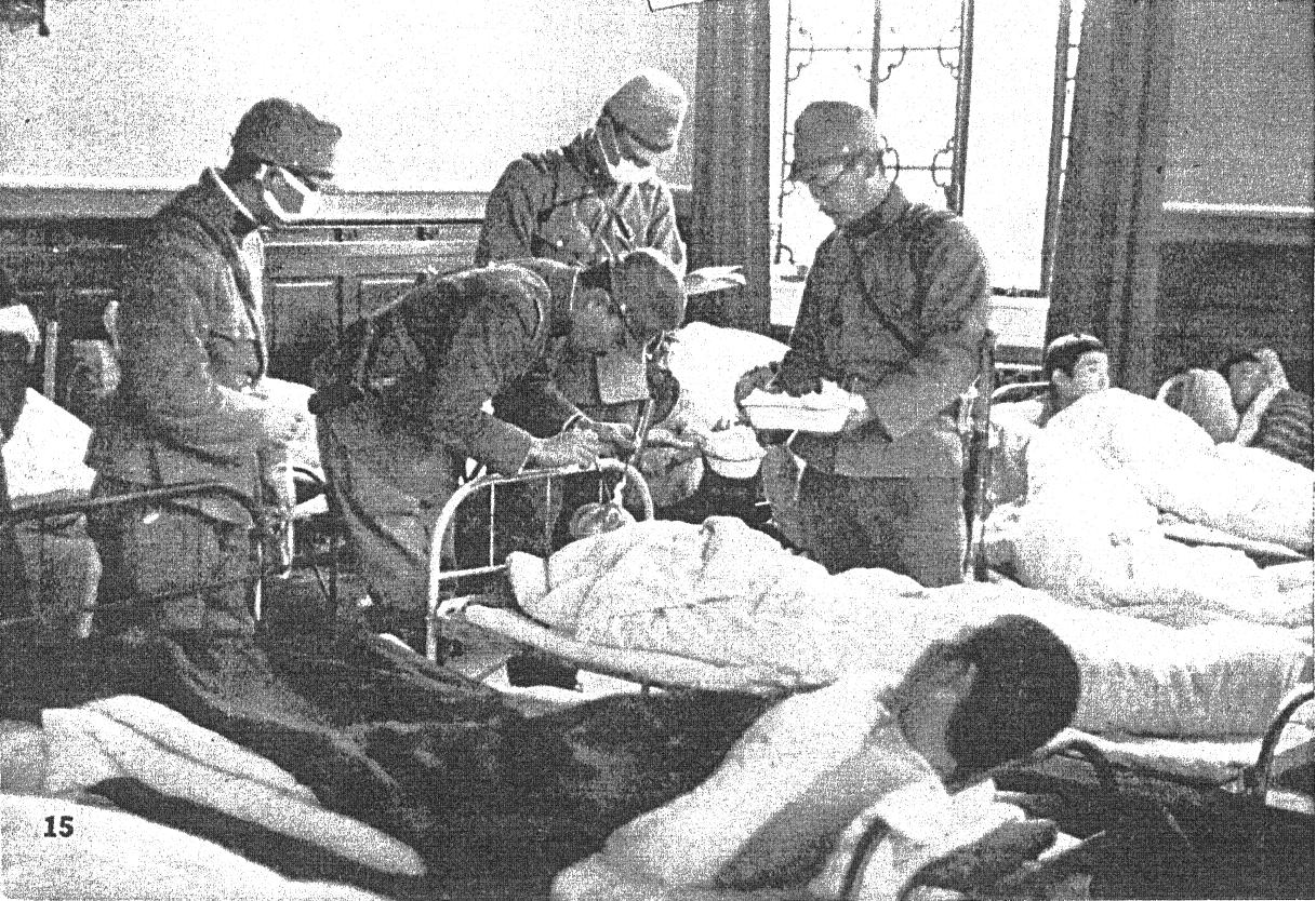 Injured Chinese soldiers are recipients of nursing care of Japanese military medics at the field hospital of the Nanking diplomatic site.(December 20, 1937)